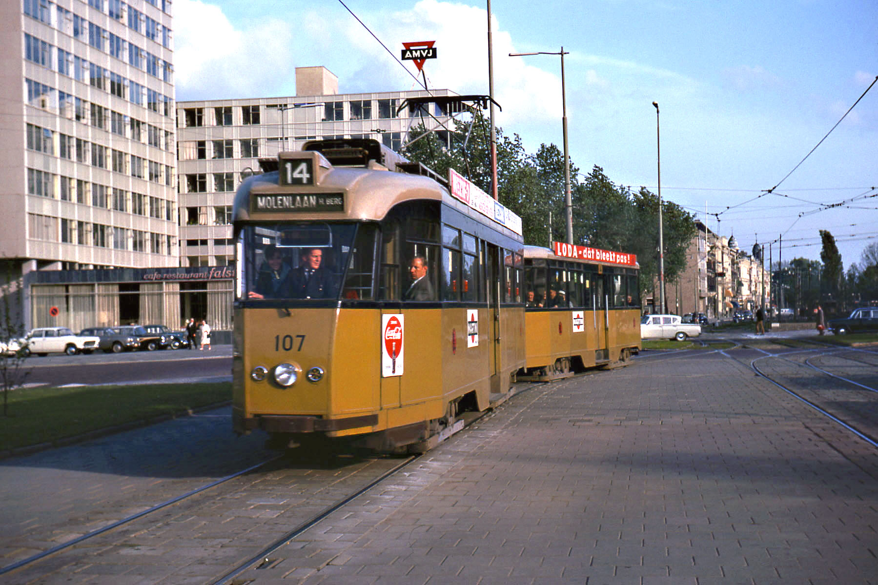 Allan tram 107, Kruisplein, Rotterdam, The Netherlands.